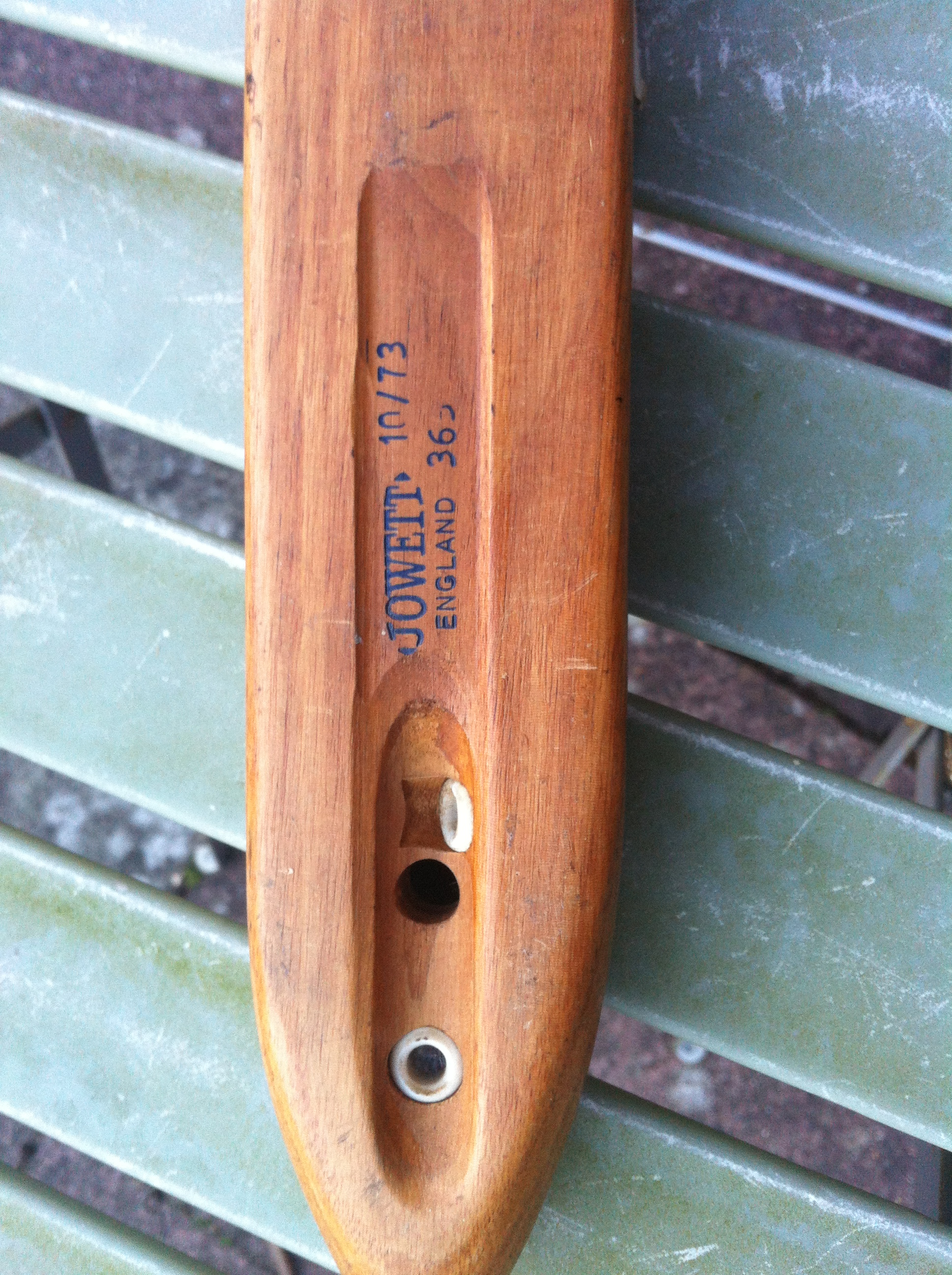 Detail of the bottom of the shuttle showing the eyes.